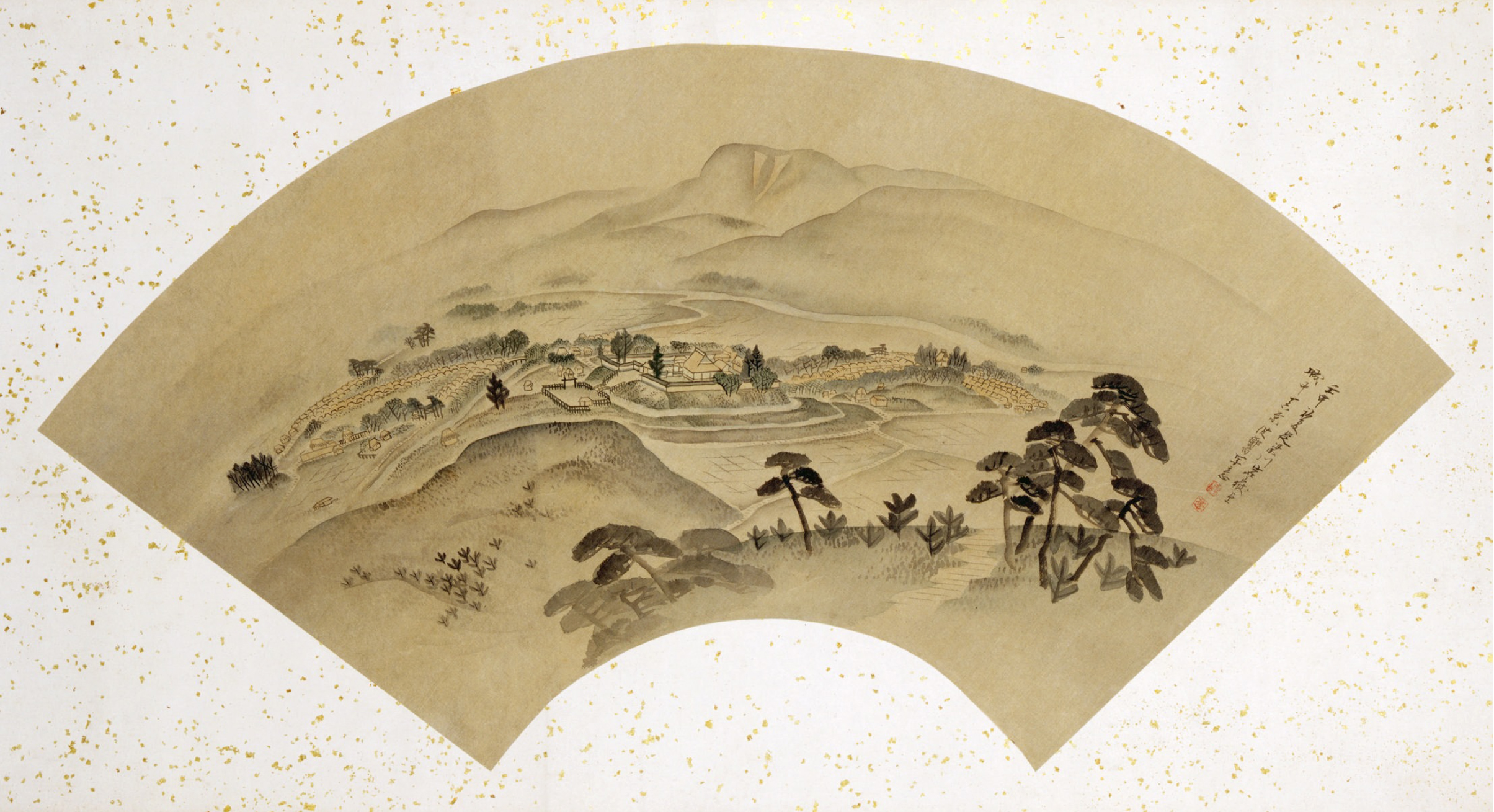 Eight Views of Yanagawa, by Kakizaki Hakyo, Hakodate City Central Library, Hakodate, Hokkaido, Japan